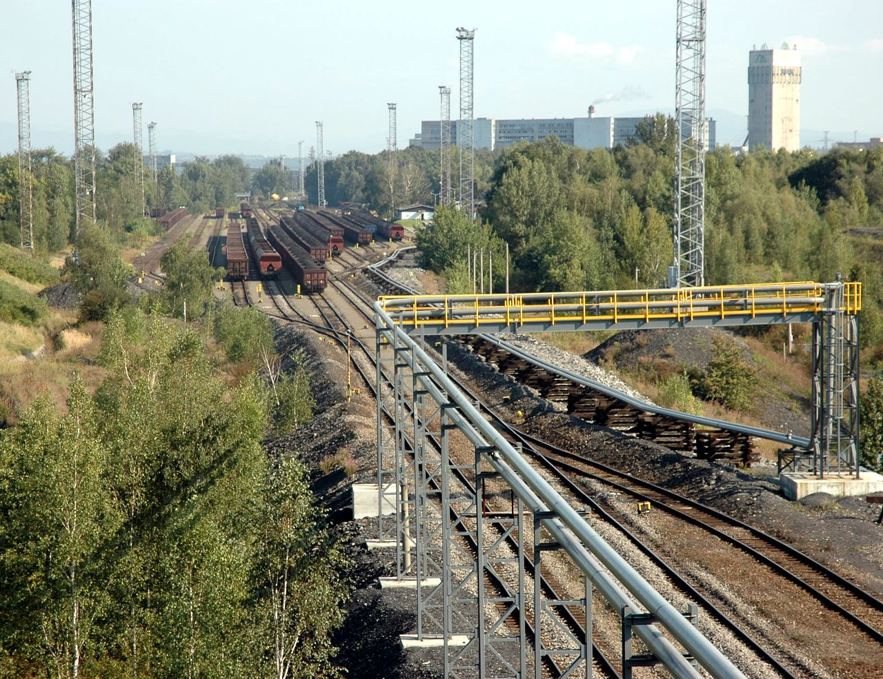 Railway station Karviná-Doly (former Karviná main station), Czech Republic